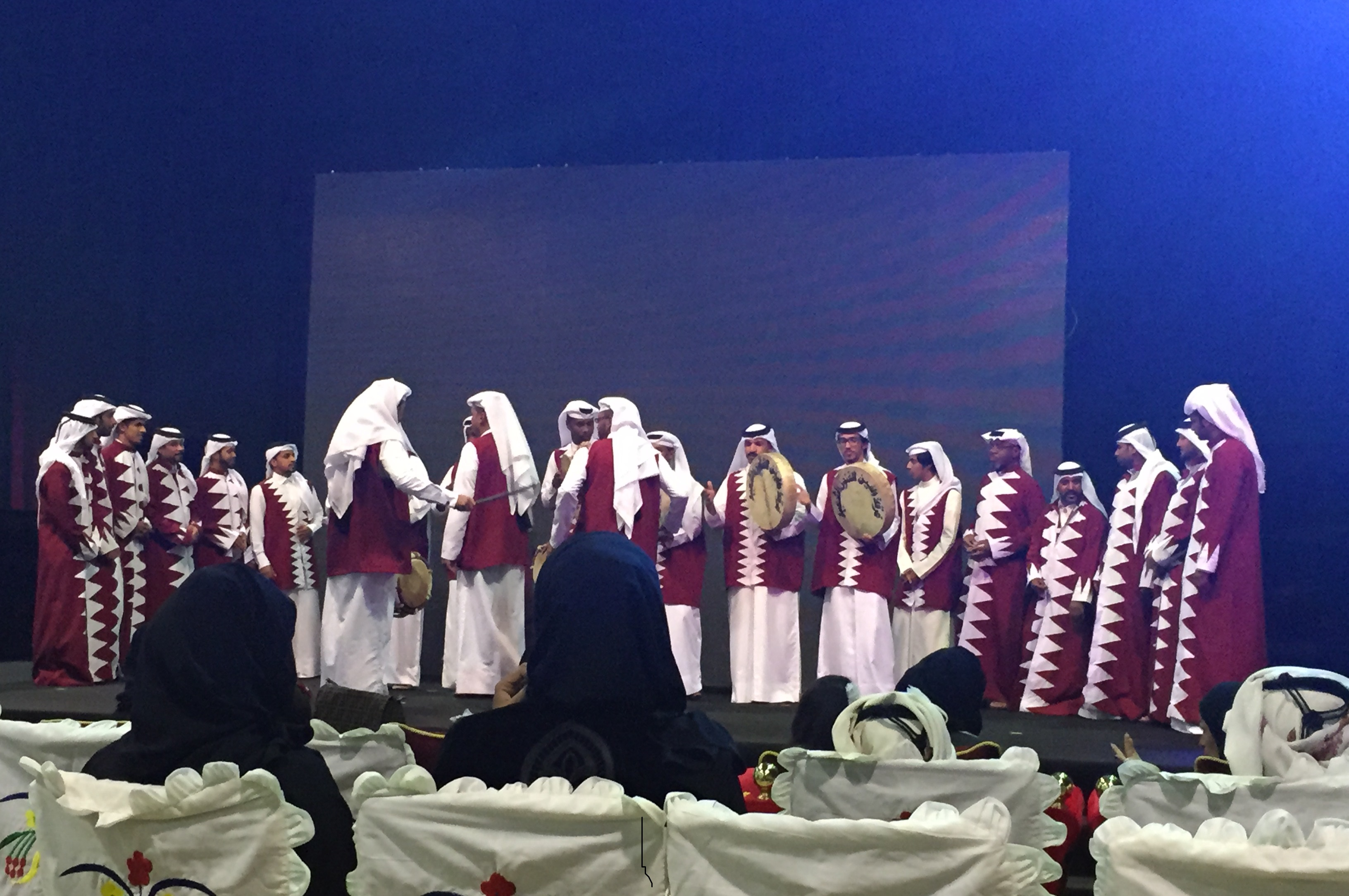 Qataris performing a traditional dance.